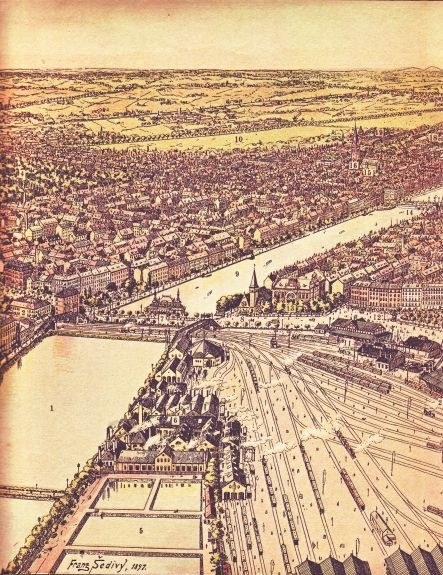 The railway terrain in Copenahgen, Denmark